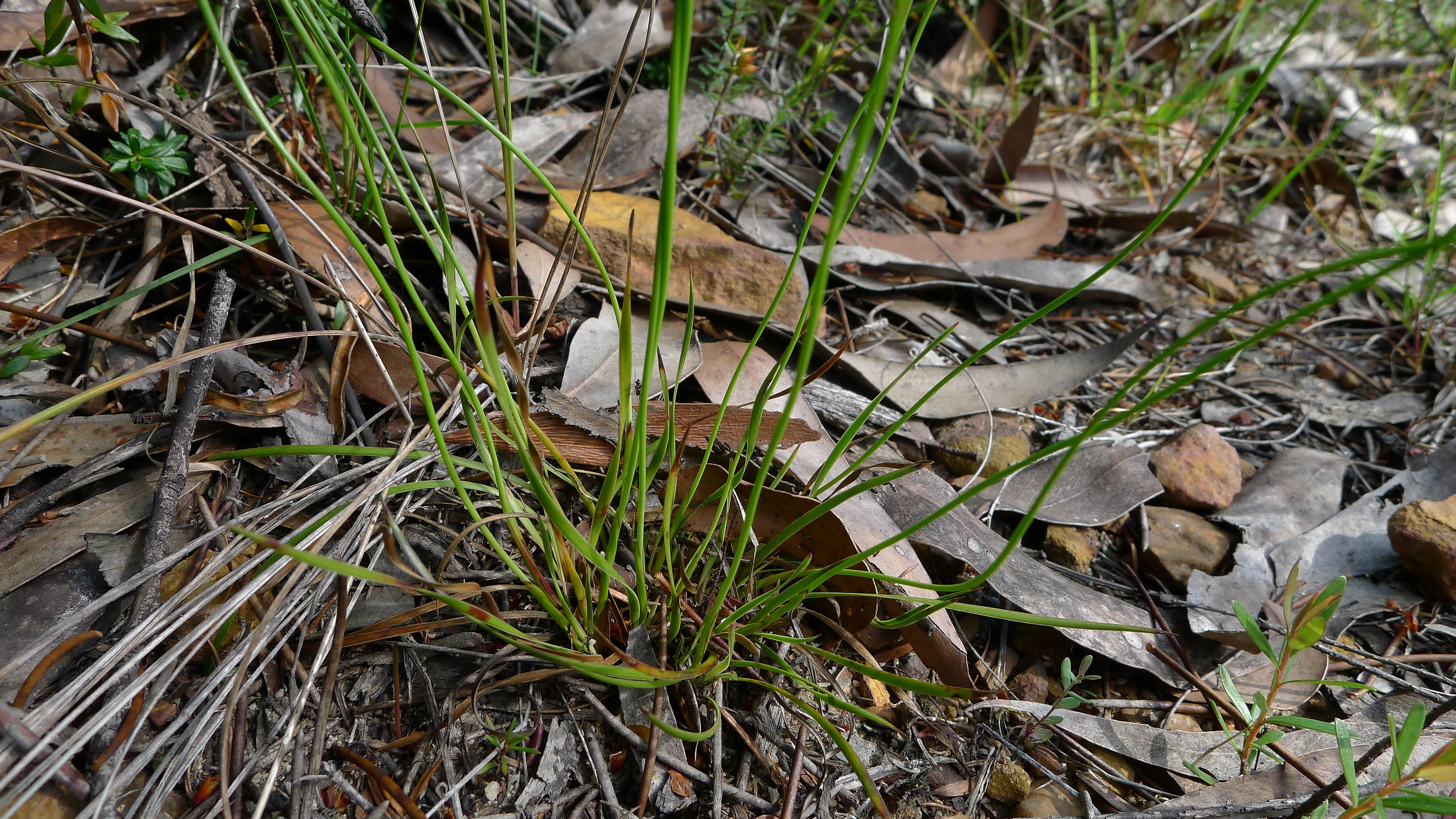 Slender Yellow-eye, Xyris gracilis, leaves with pale edges. Dharawal National Park, NSW Australia, January 2014.